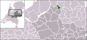 Locator map of Dutch municipalities in Gelderland (LocatieHattem.png)